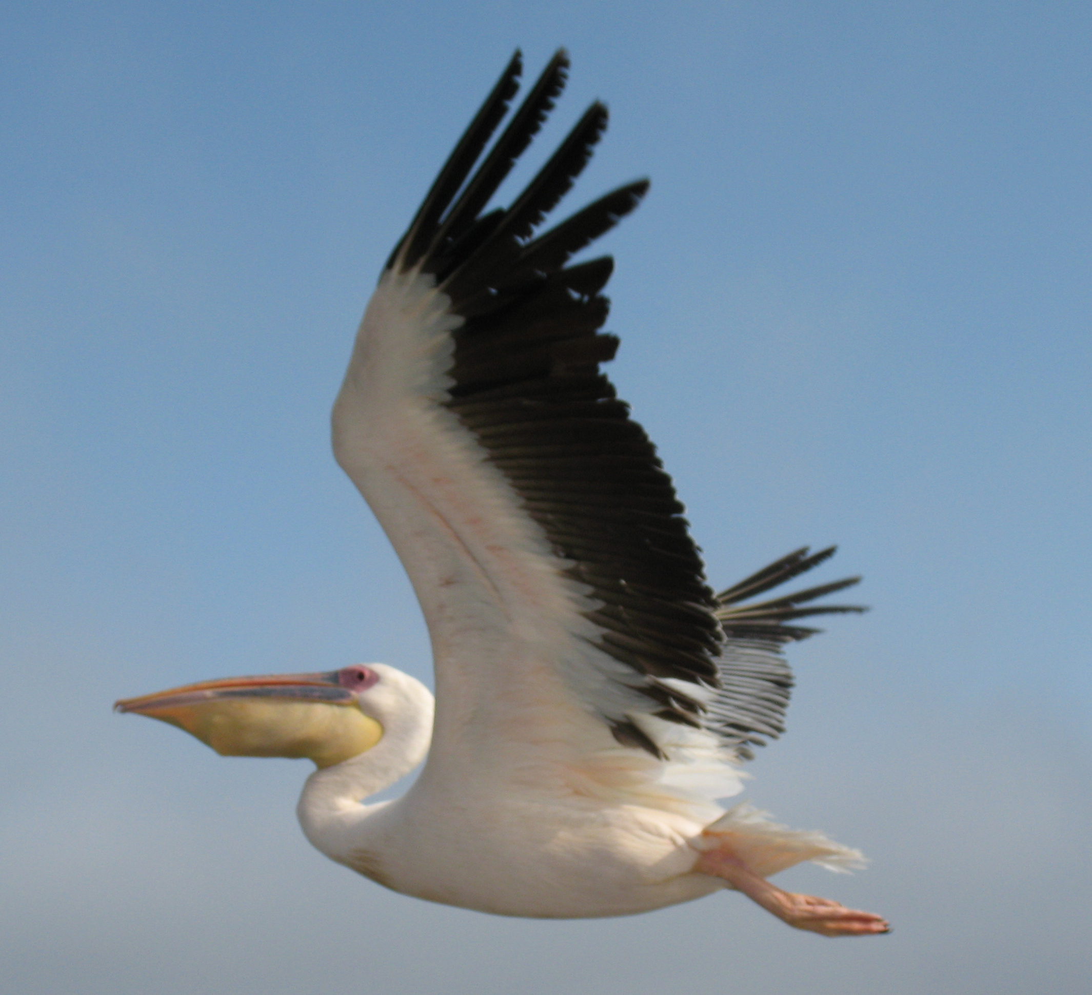 Flying Pelican